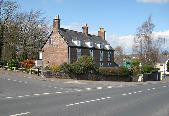 Forest House Hotel, formerly Tump House An 18th century, Grade II listed building and former home of metallurgist, David Mushet. He created the Dark Hill Ironworks. His son Robert perfected the Bessemer Process for making steel.